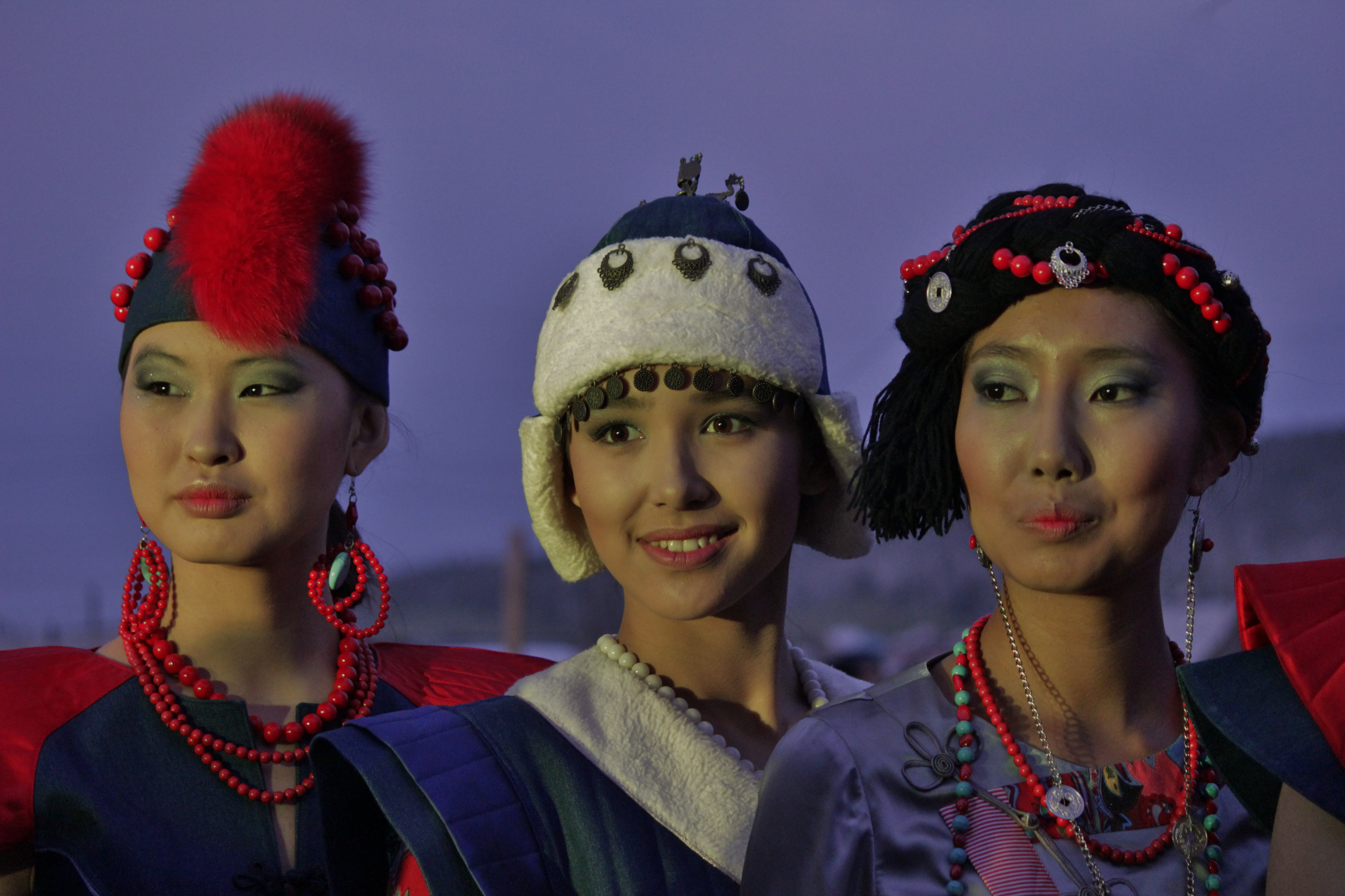 Costume contest at the Festival of Buryat culture "Altargana-2012." Aginsk Buryat district, Transbaikalia territory